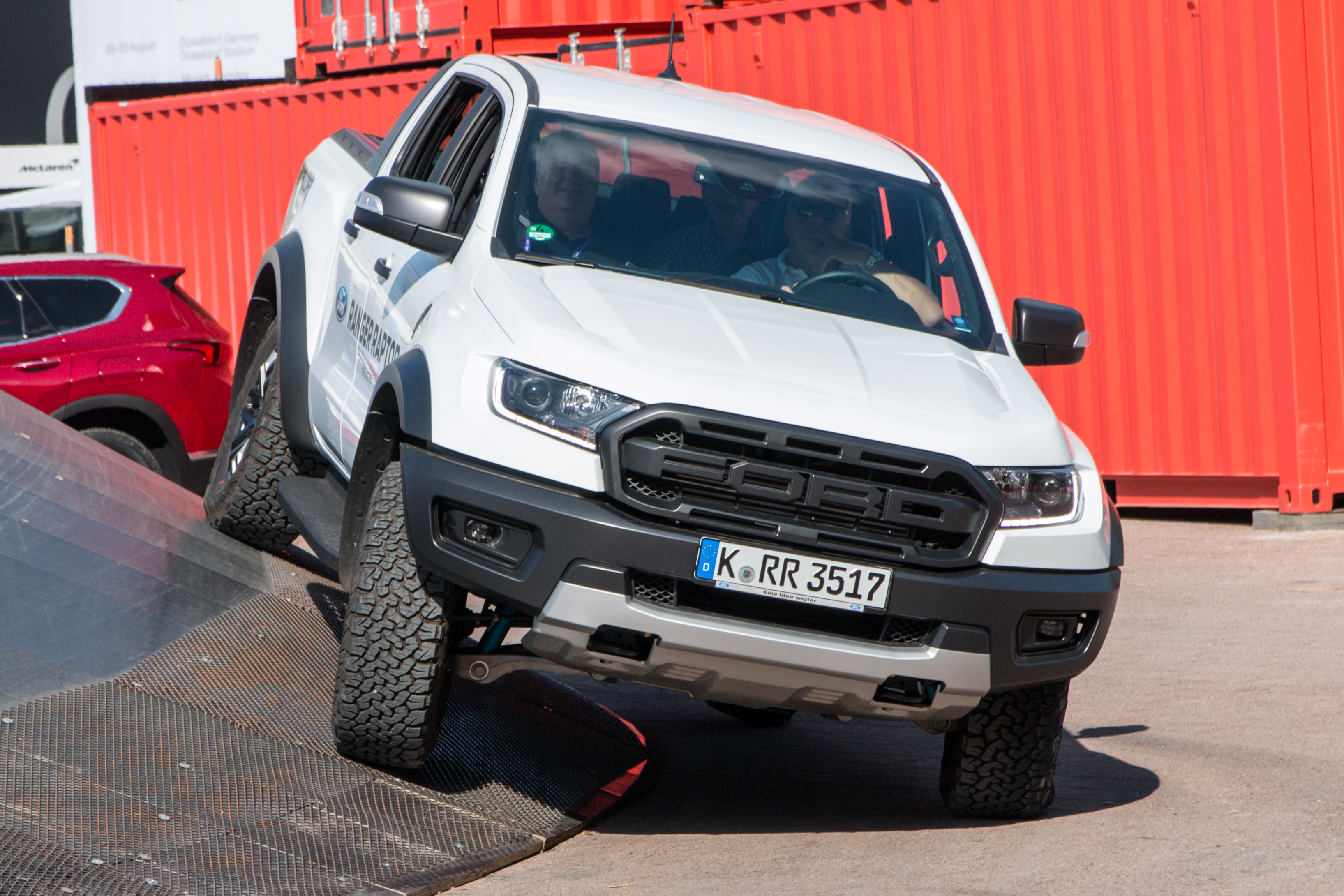 Ford Ranger Raptor